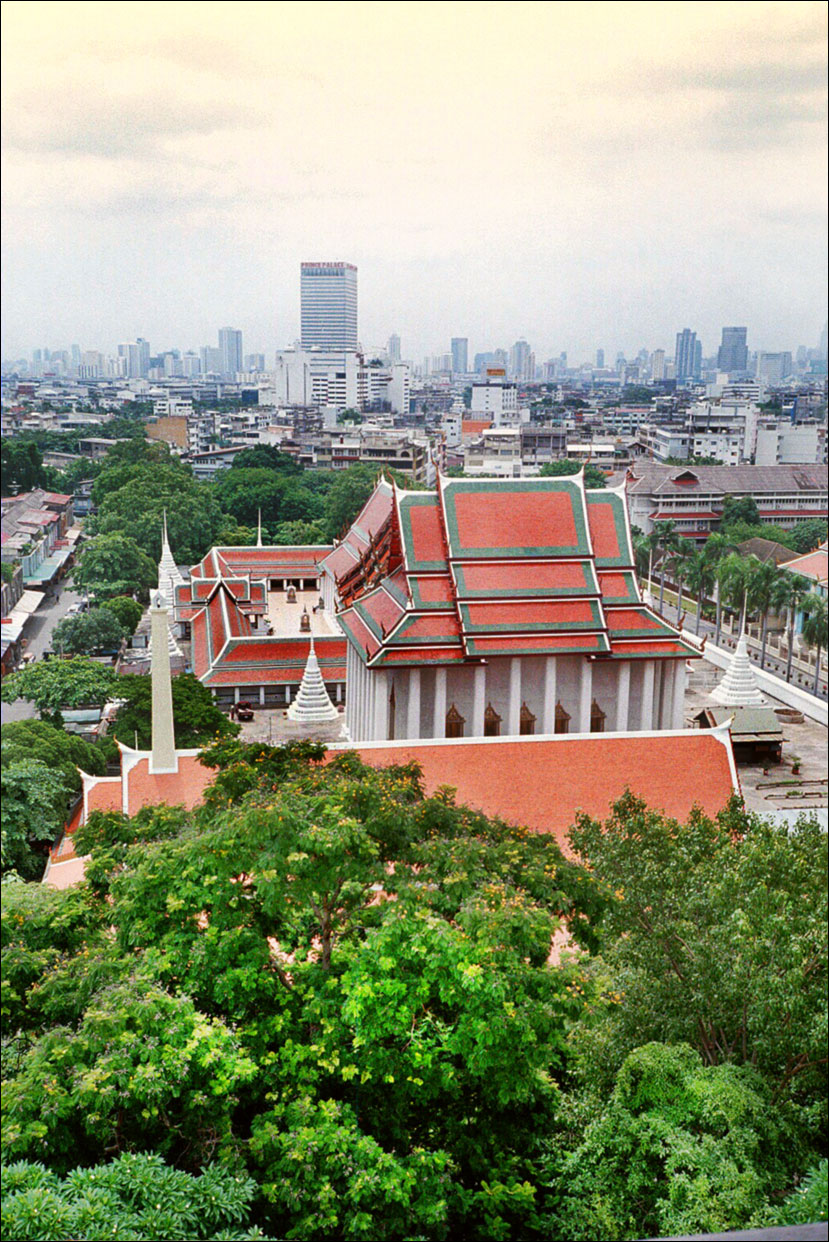 Wat Saket (Temple of the Golden Mount), Bangkok, Thailand.